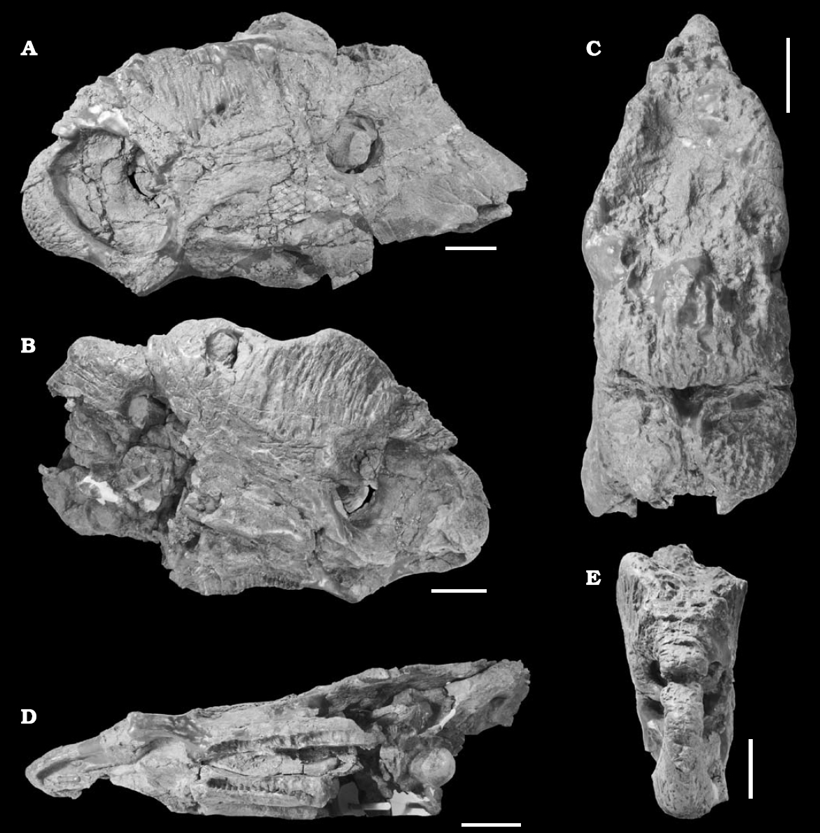 Centrosaurine ceratopsid Pachyrhinosaurus perotorum sp. nov., paratype (DMNH 22558); skull in left lateral (A), right lateral (B), dorsal (C), ven− tral (D), and anterior (E) views. Scale bars 10 cm.